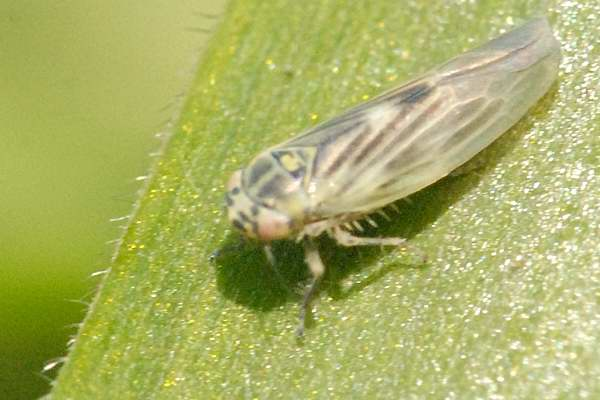 Macrosteles horvathi from Commanster, Belgian High Ardennes .